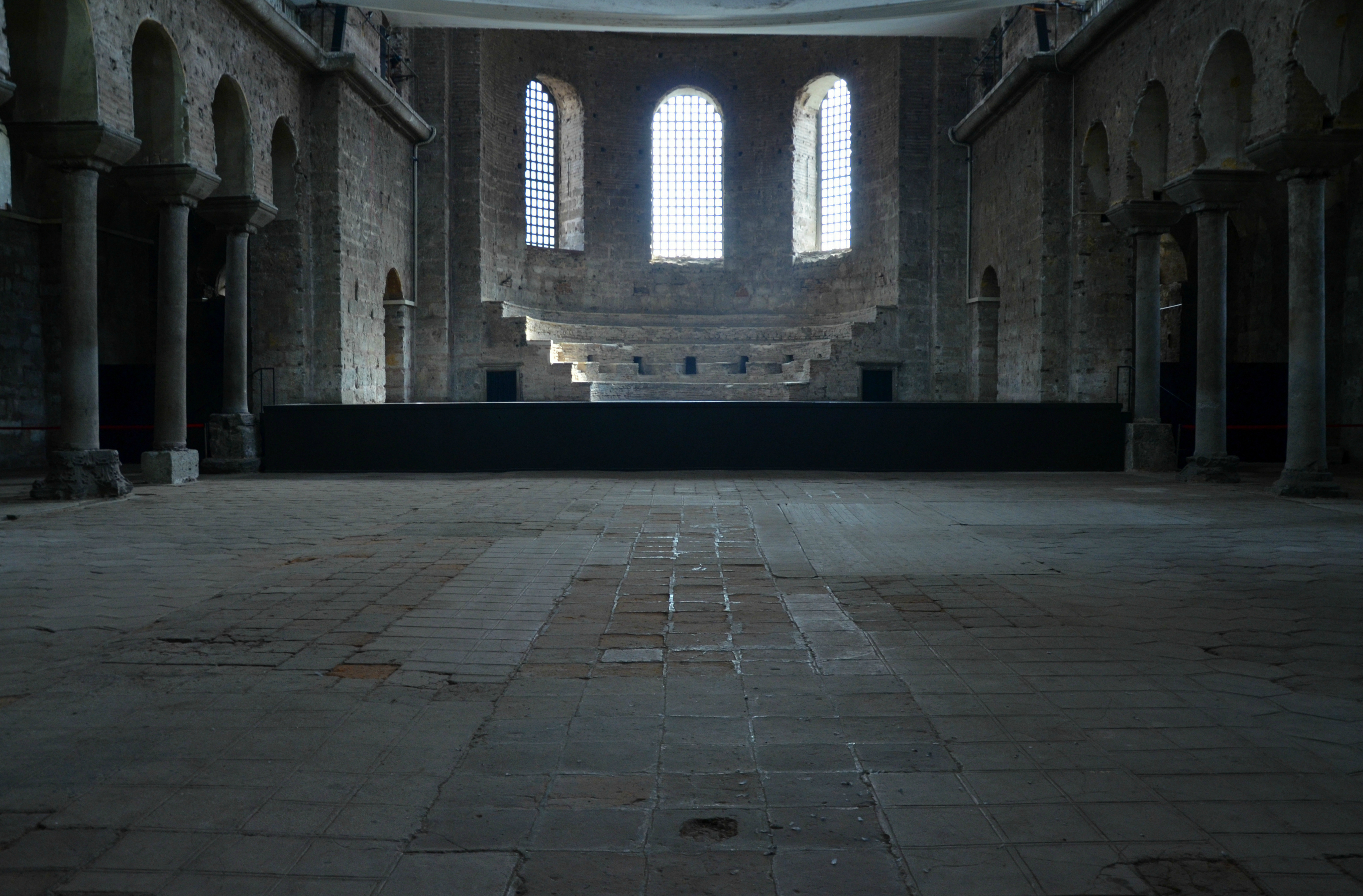 The Hagia Irene stands on what is believed to be the oldest site of Christian worship in Istanbul. Roman Emperor Constantine I ordered the church in the 4th century, making it the first church built in Constantinople. After being burned down during the Nike revolt in 532, Emperor Justinian I had the church restored in 548. By then the Patriarchate had already moved to the Hagia Sophia, which was completed in 537. Restorations were again required in the 8th century after severe damages caused by an earthquake.